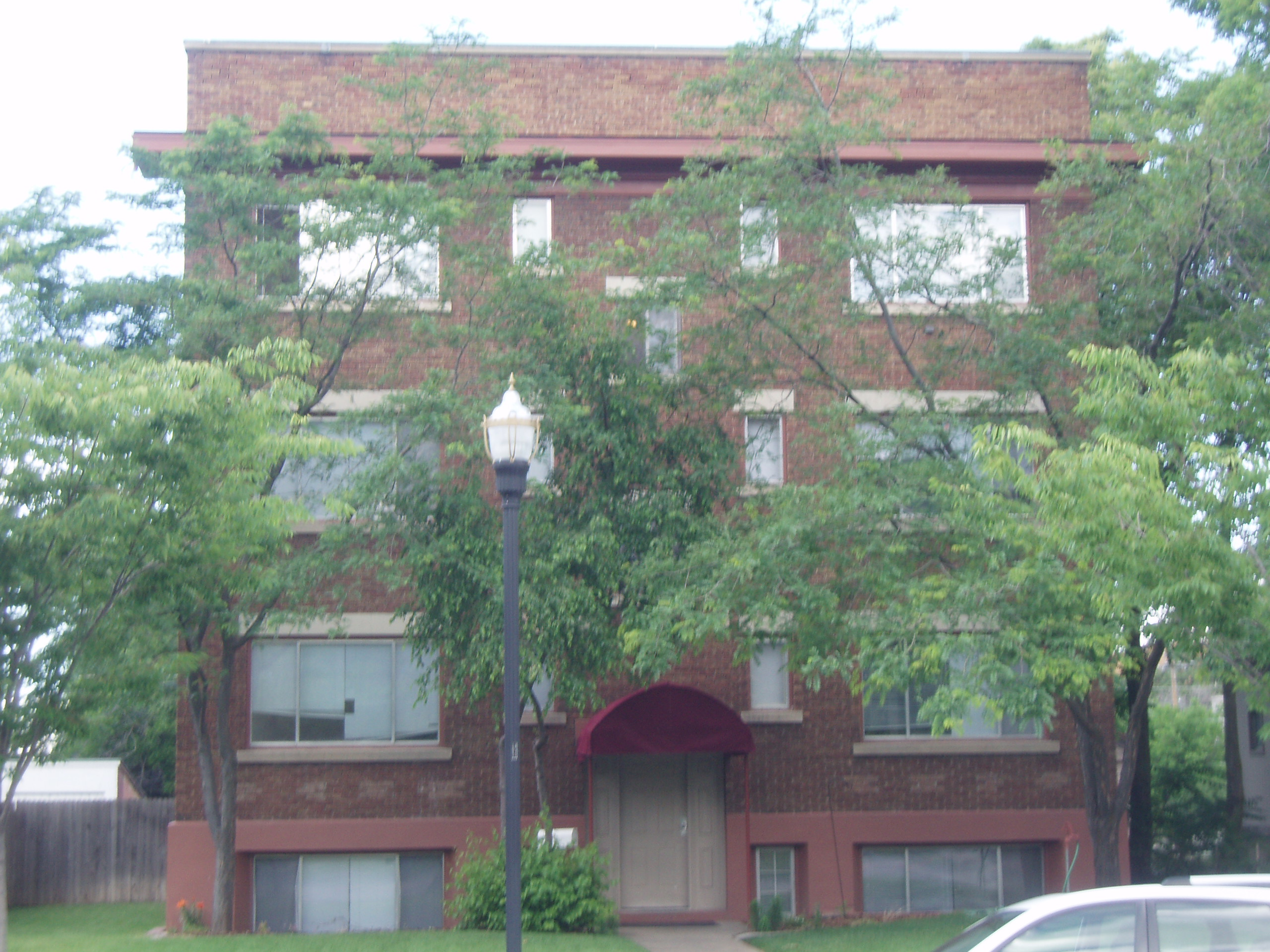 The Farnsworth Apartments, a historic building in the Jefferson Avenue Historic District in Ogden, Utah, United States.